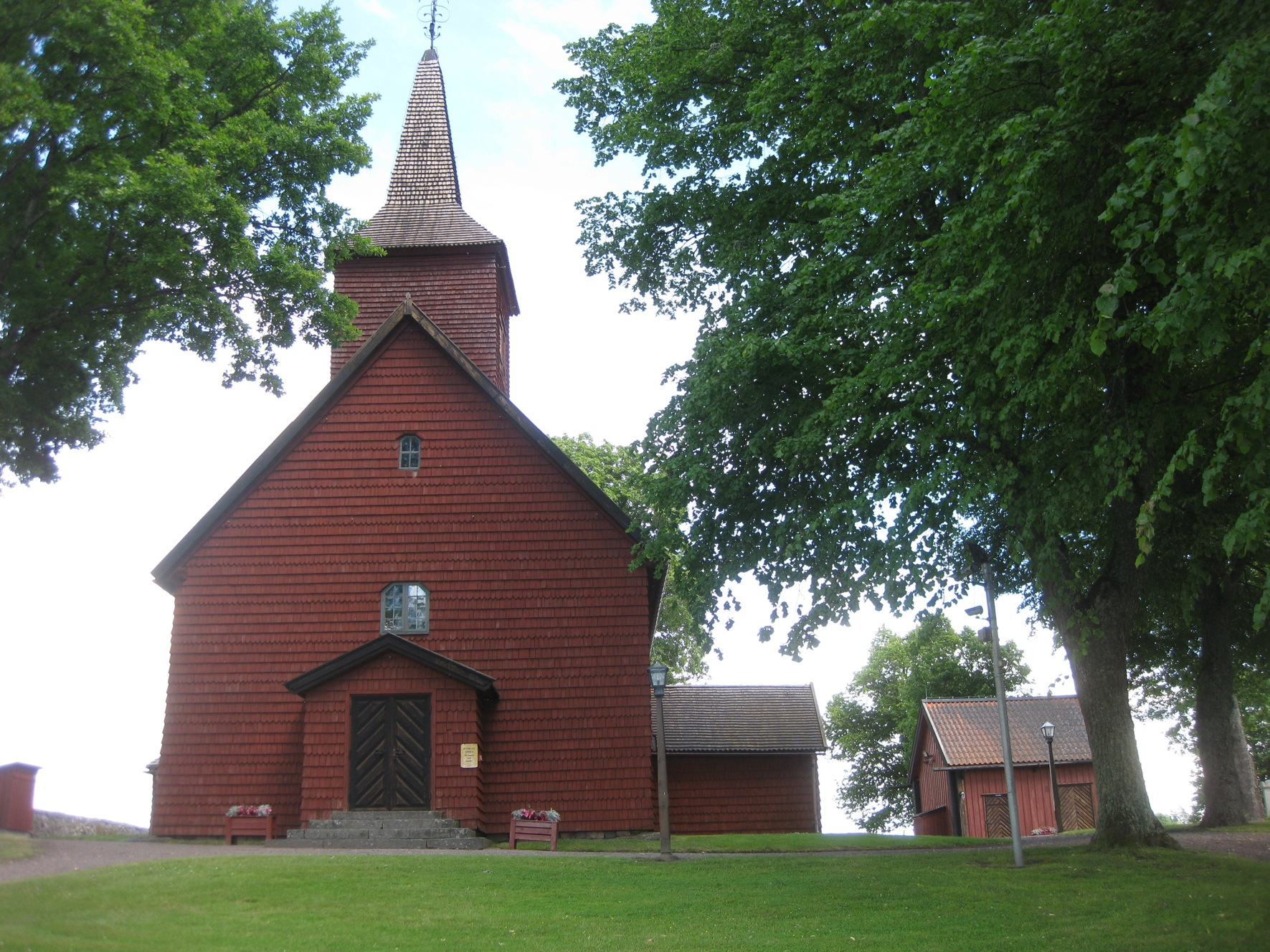 Älgarås church in Töreboda municipality, the province of Västergötland, Sweden. One of a few existing medieval wooden churches in Sweden. The main part was built in 1460s.